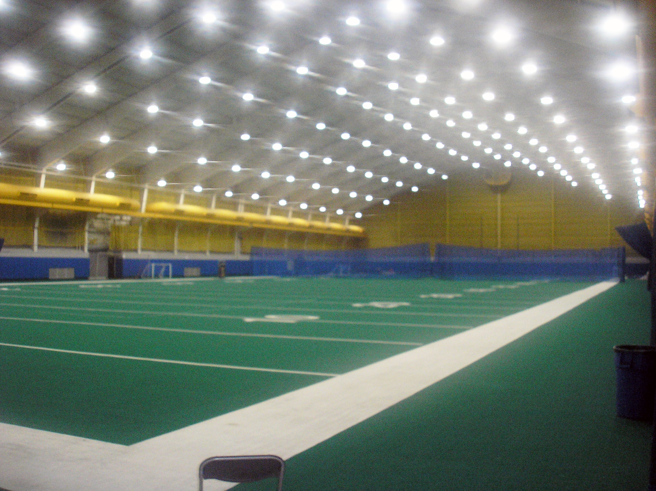 Cost Sport Center at the University of Pittsburgh, photo by Michael G. White